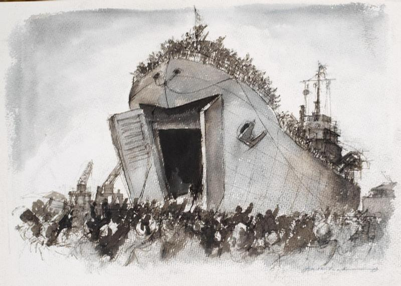 A Landing Ship Tank at the Wharf, St Peter Port, Guernsey - May 1945 image: A landing ship with her bow doors open looms over a large crowd assembled on the quay. They are greeting the British soldiers, who hang over the ship's railings and wave back.